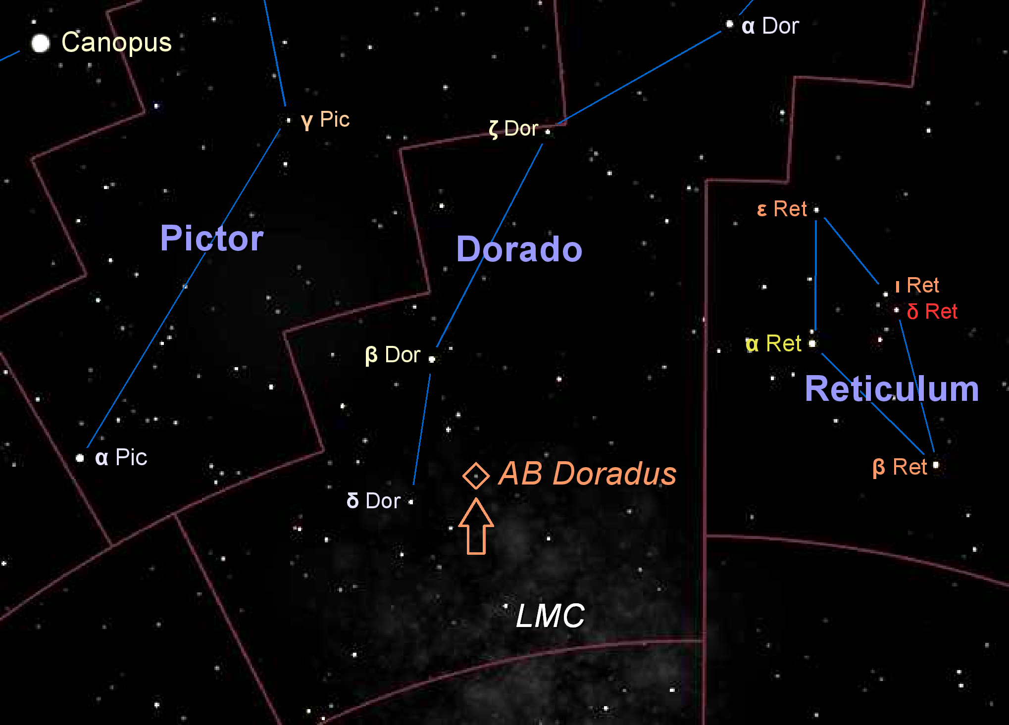 This illustration shows the location of the star AB Doradus.